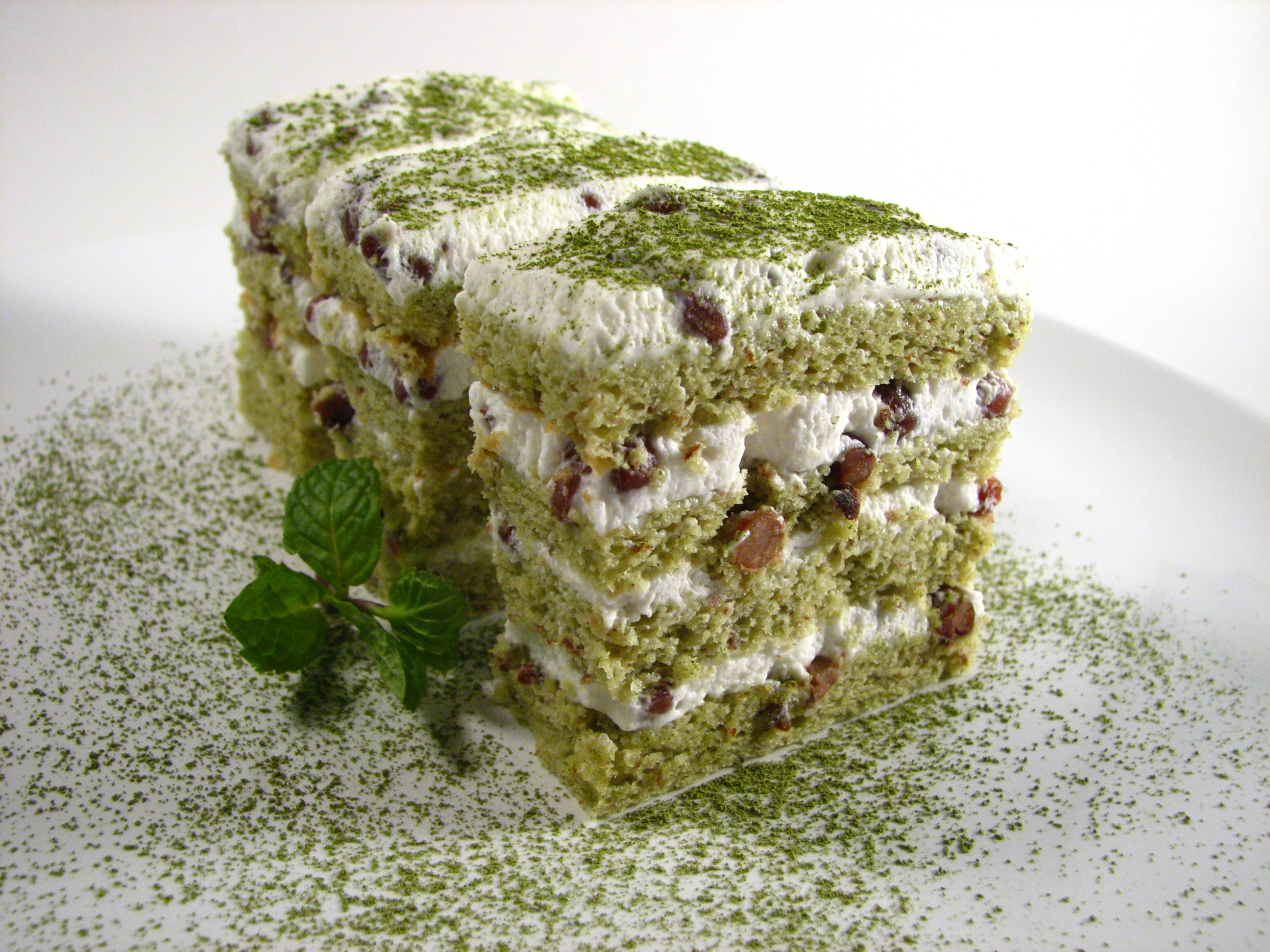 Matcha and redbean cake.